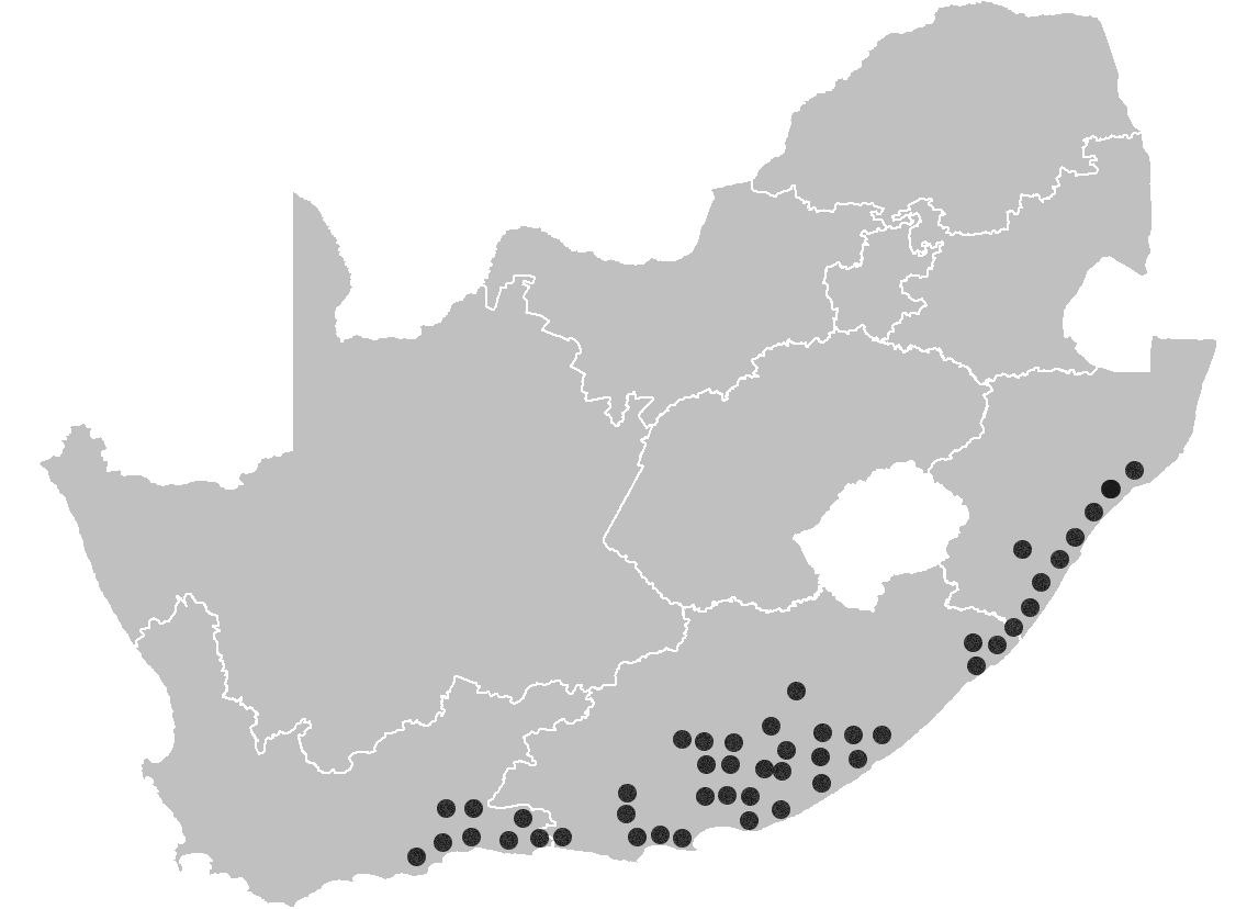 Distribution map of Haemanthus albiflos